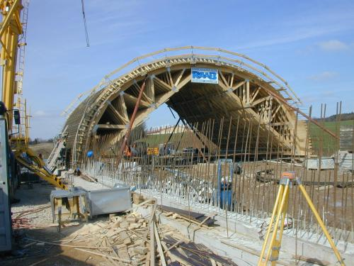 Construction of a bridge in Suhl